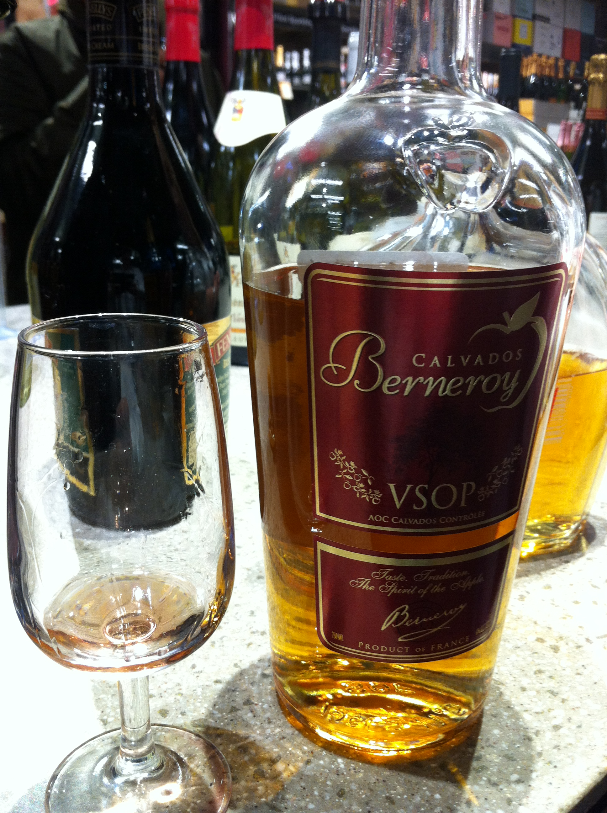 French apple brandy from the Calvados region